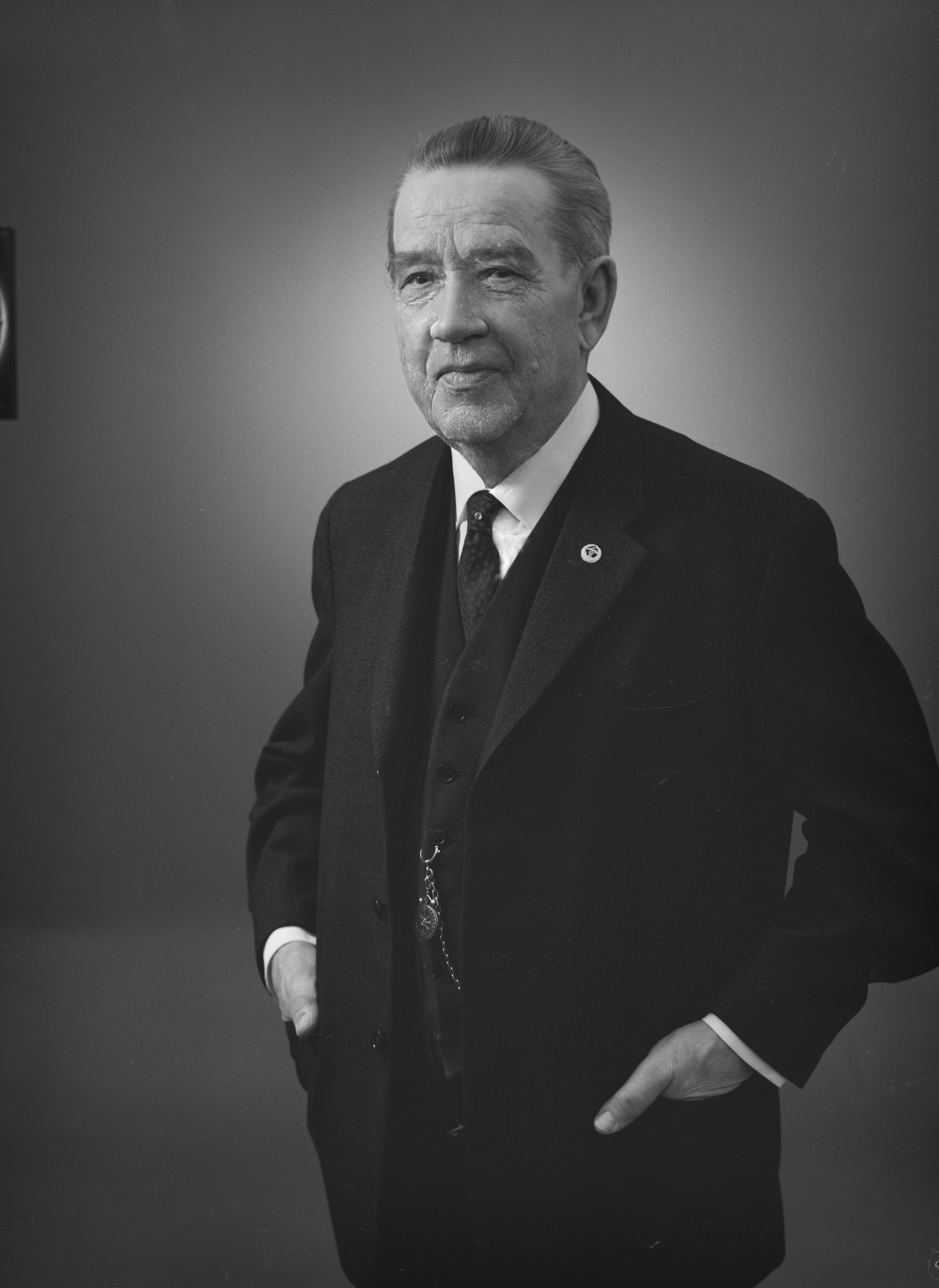 Photograph of the Finnish politician Väinö Salovaara (1888–1964).